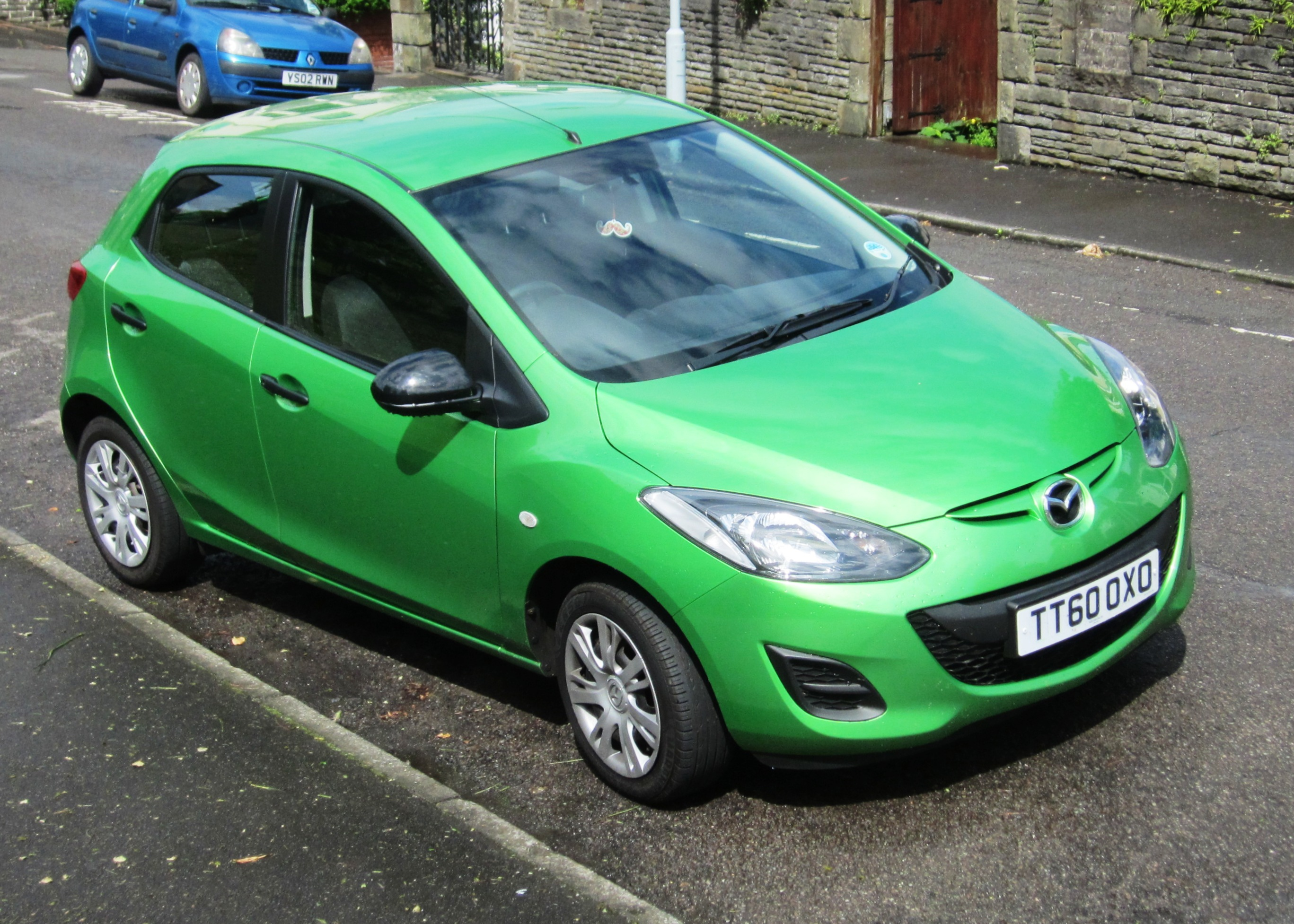 Mazda 2 in Swansea